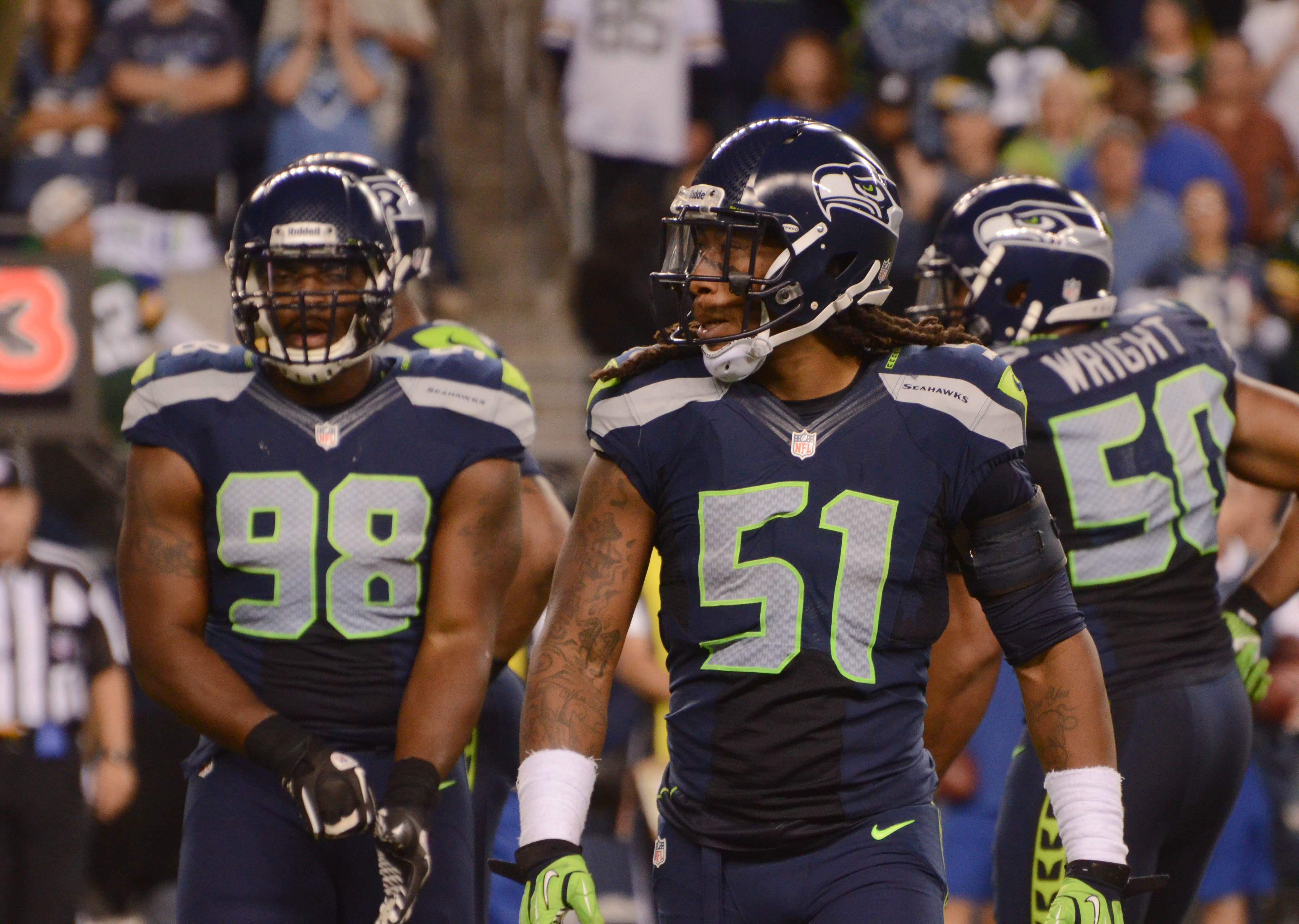 Bruce Irvin, Seattle Seahawks, 2012